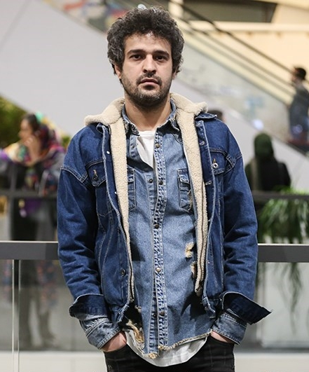 Mojtaba Pirzadeh attends the 37th Fajr Film Festival on February 4, 2019, in Tehran